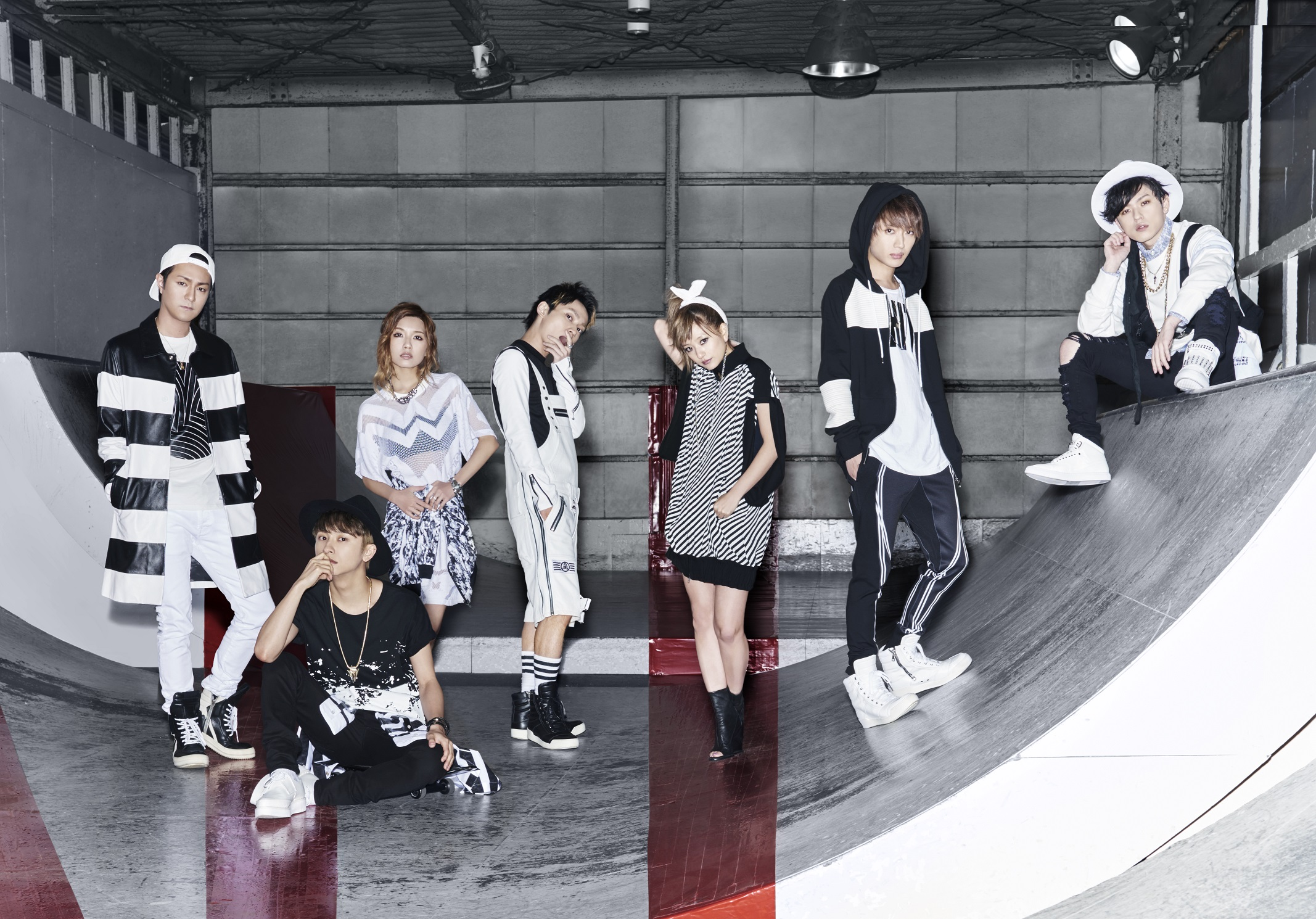 Jacket photo shoot of AAA's 46th single "GAME OVER?"